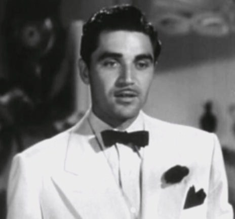 Steve Cochran in The Chase - cropped screenshot